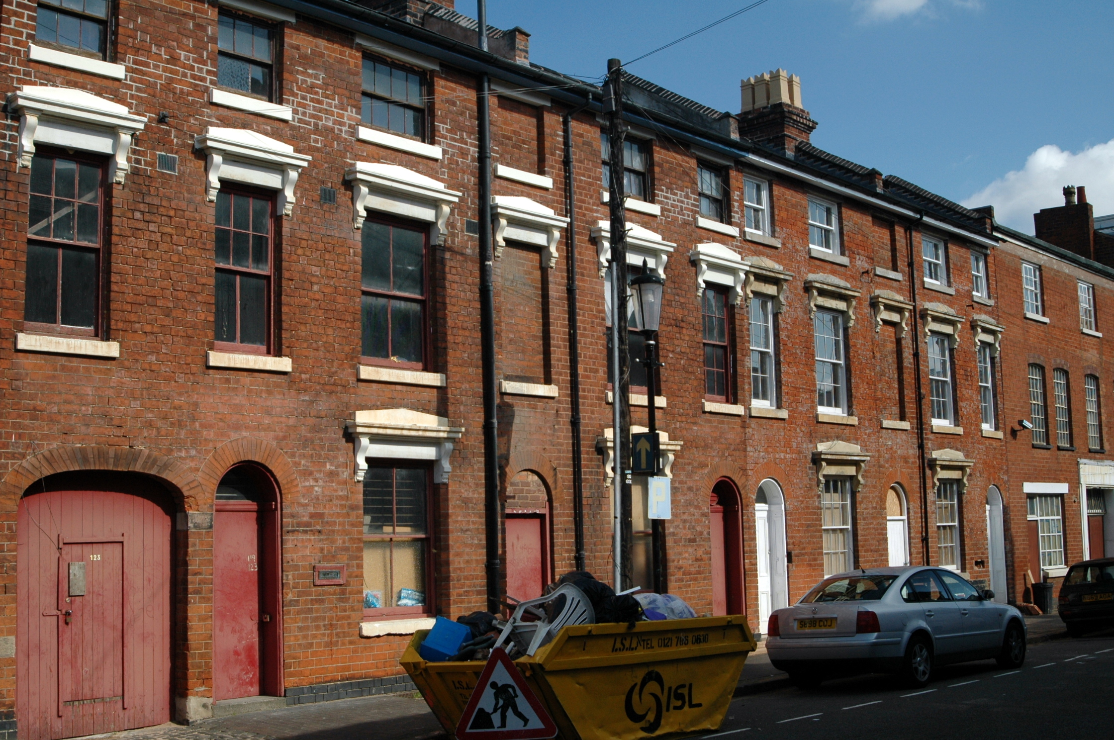 These are workshop properties on Branston Street in the Jewellery Quarter, Birmingham. These would have also been residential properties with the jewellers or workmen working in the attic.